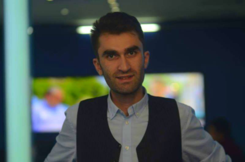 Mikheil Khachidze